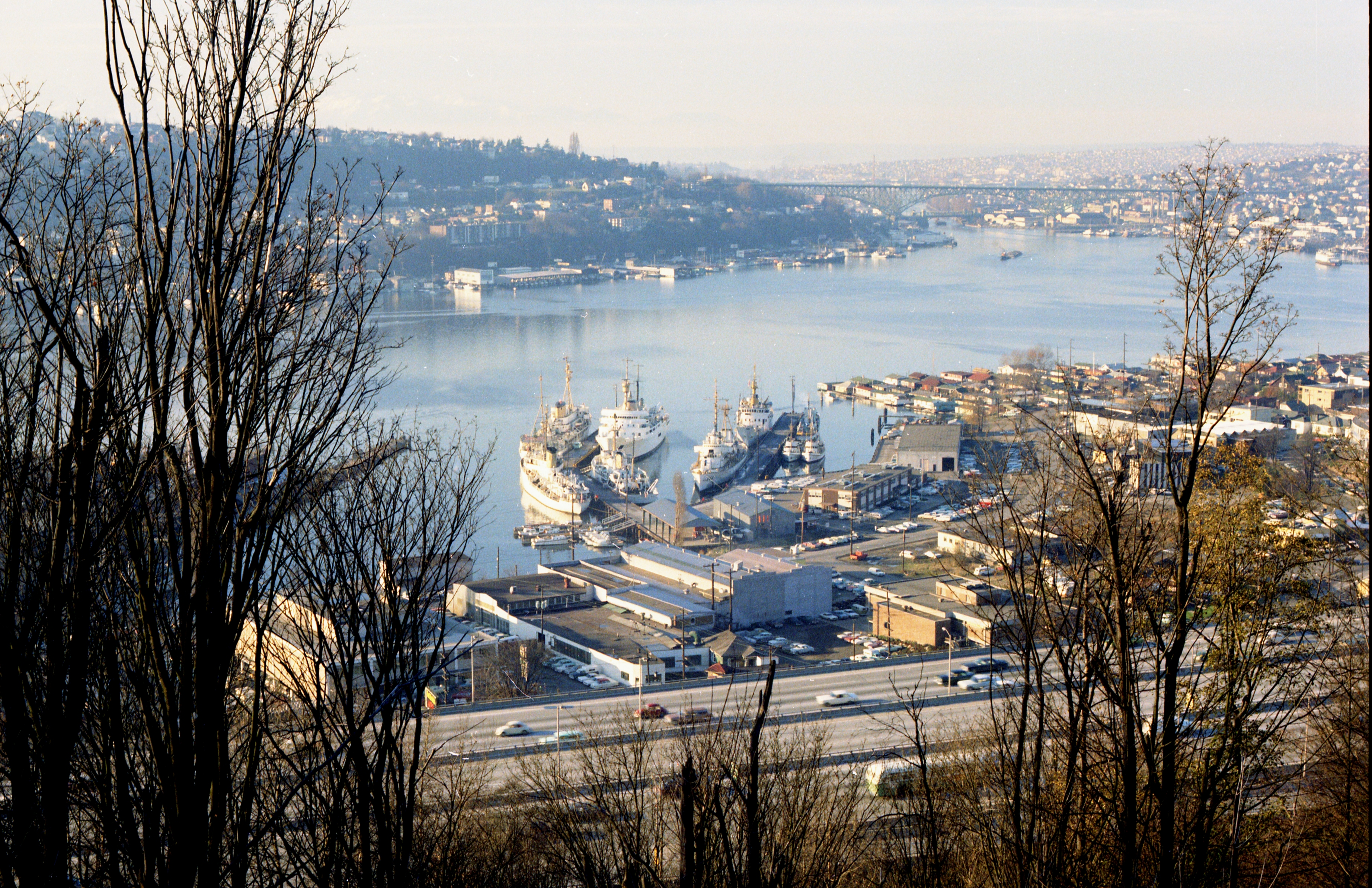 The USC&GS ship base, named Pacific Marine Center, as seen from east of Interstate 5. Image ID: ship5586, NOAA's Fleet Then and Now - Sailing for Science Collection Location: Washington, Seattle Photo Date: 1967 Photographer: Dan Twohig, NOAA/NMFS/AFSC (ret.)